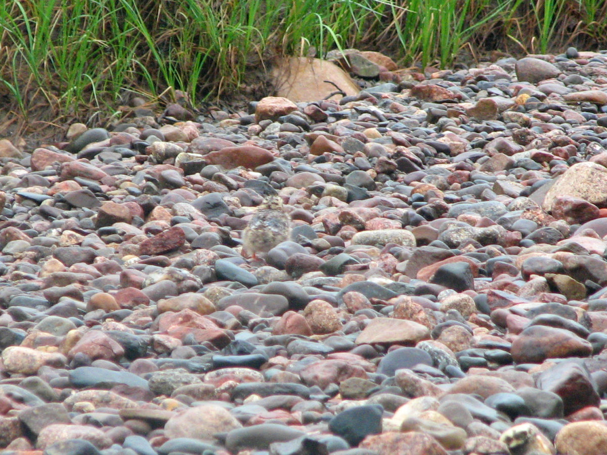 Arctic Tern (Sterna paradisaea) chick in creek bed of Coppermine River, Nunavut